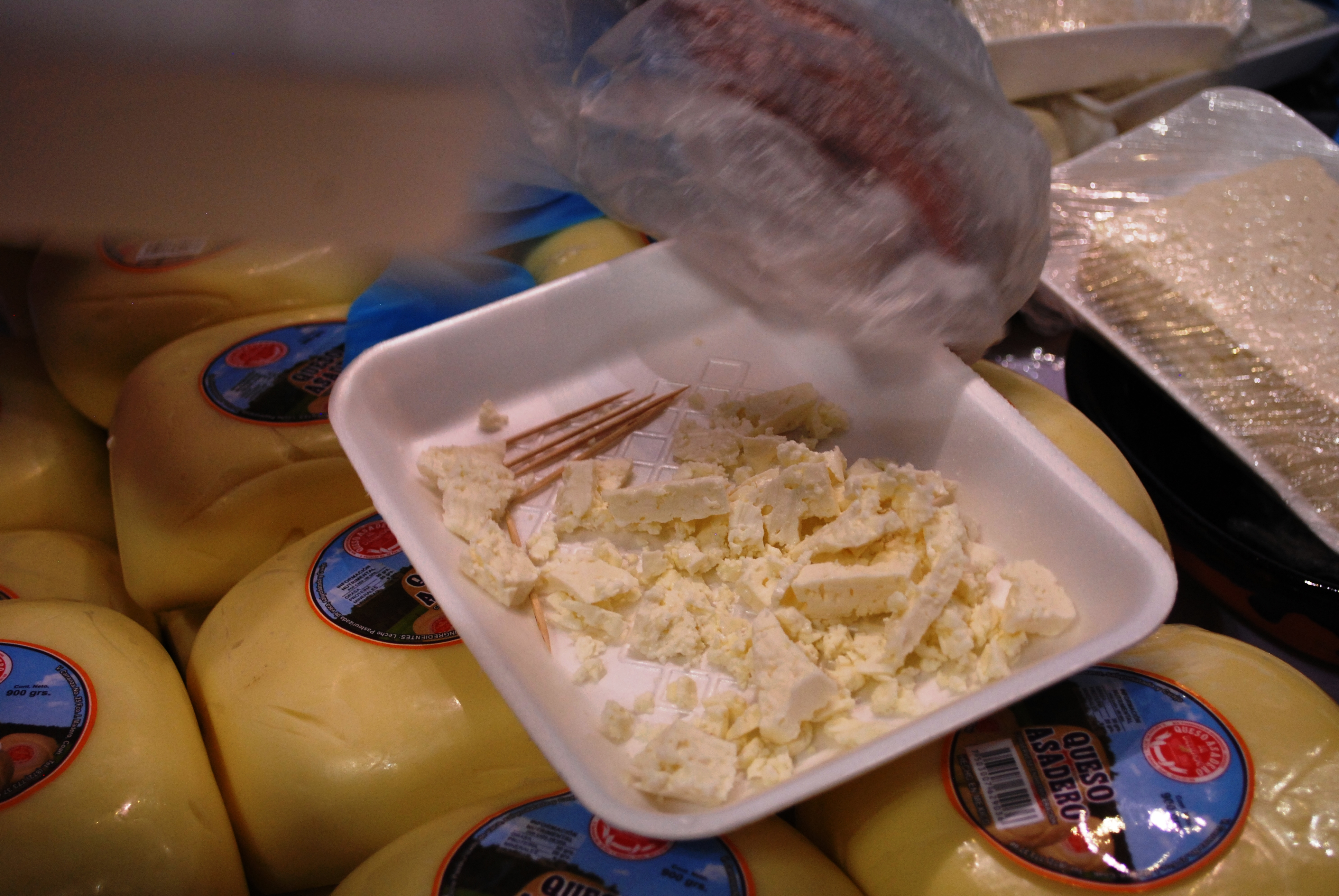 Pieces of panela cheese being offered over blocks of asadero cheese at the 2010 FONART exhibition in Mexico City